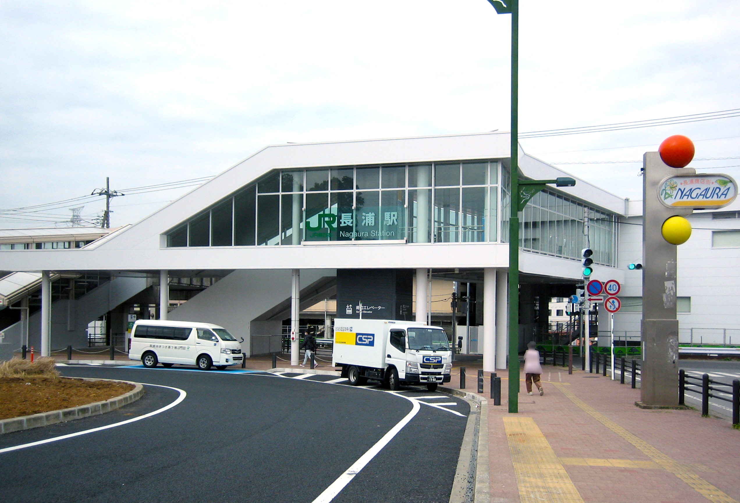 The south side of Nagaura Station on the Uchibo Line in Chiba Prefecture, Japan